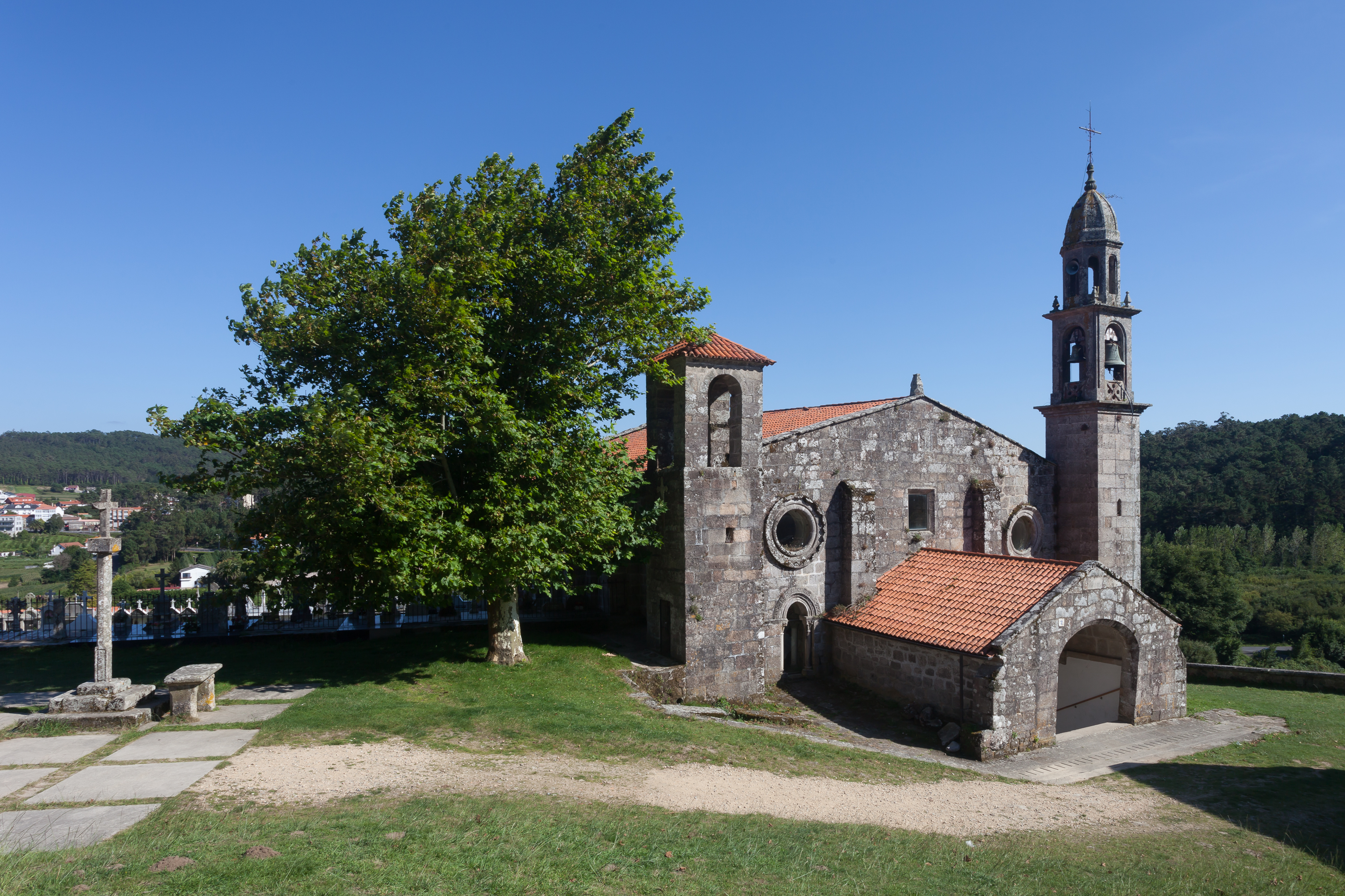 San Xulián of Moraime. Muxía. Galicia (Spain)